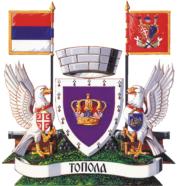 Big Coat pf Arms of Topola